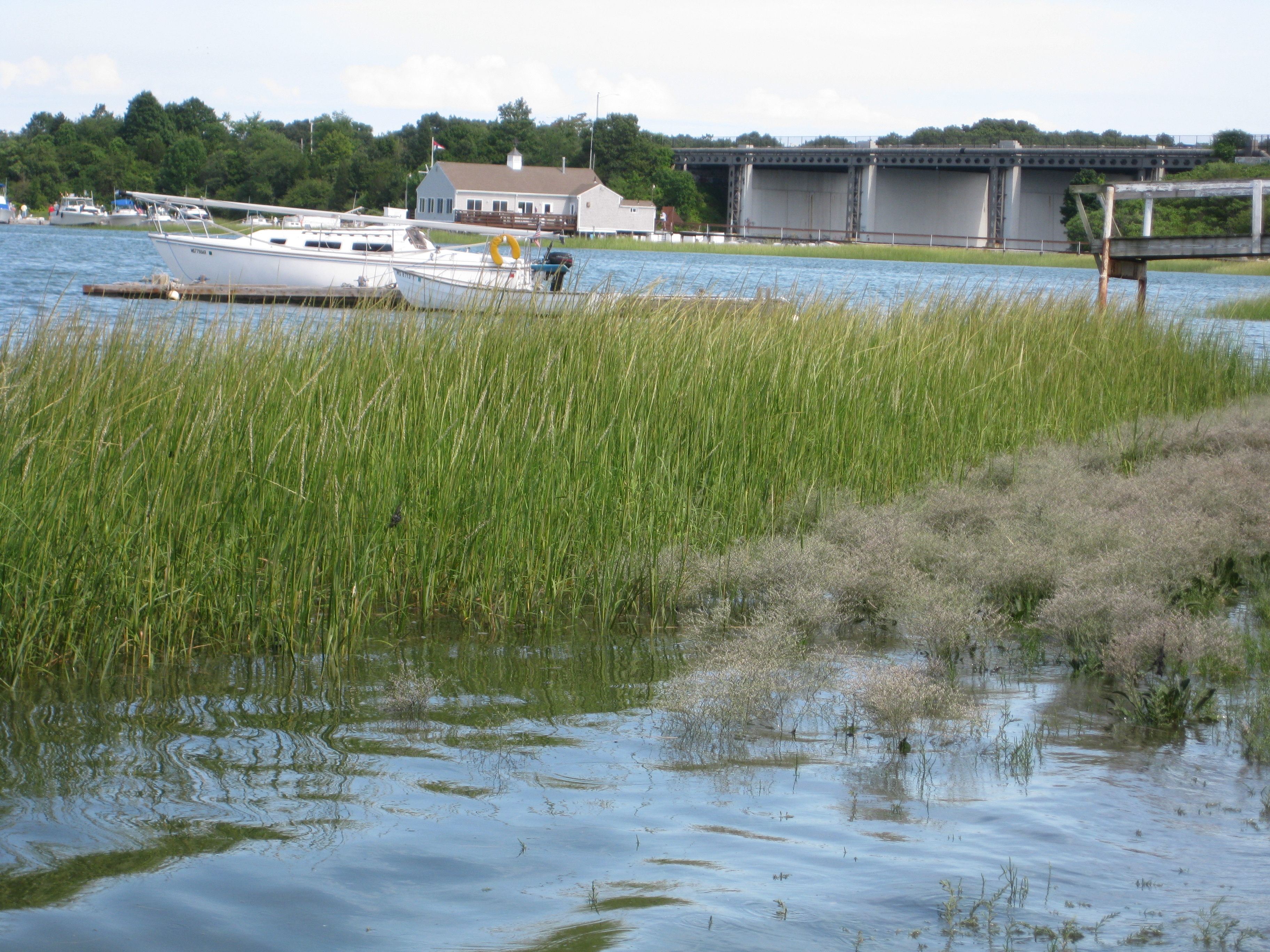 Weymouth Back River Bridge (Route 3A south) view is northeast from Davids Island